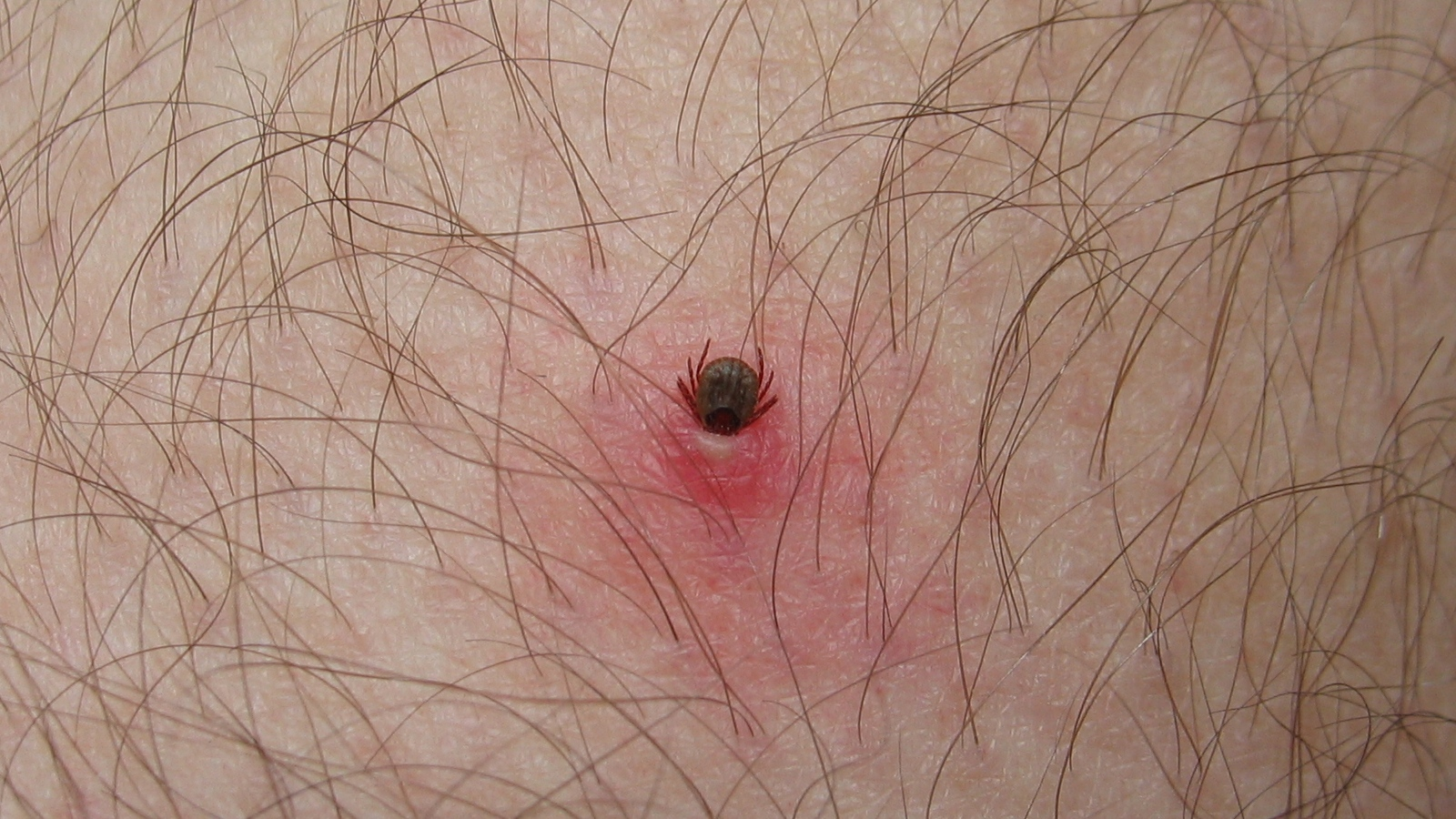 Tick lodged in human host just above ankle on inside left leg of contributor. An image of the tick after removal can be seen here. The site of the bite can be seen here; some swelling/immune activity is evident.